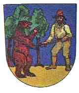 Coat of arms of Bystré town, Svitavy District, Czech Republic.